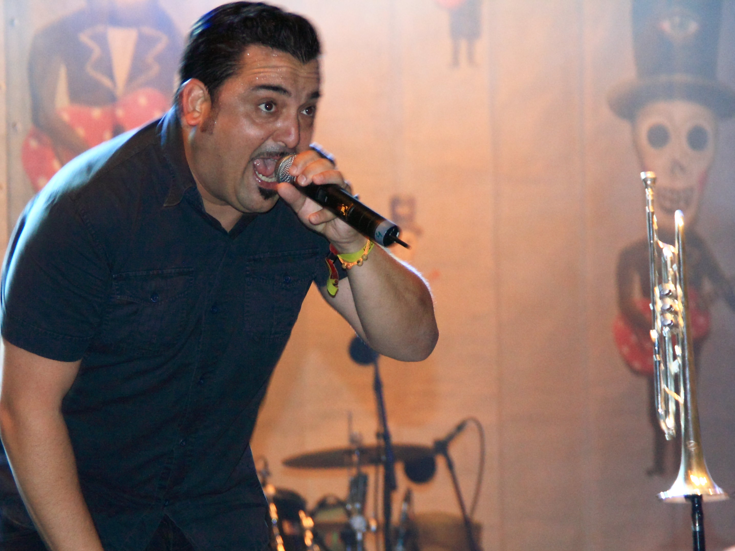 Roy Paci & Aretuska at TFF Rudolstadt 2011.